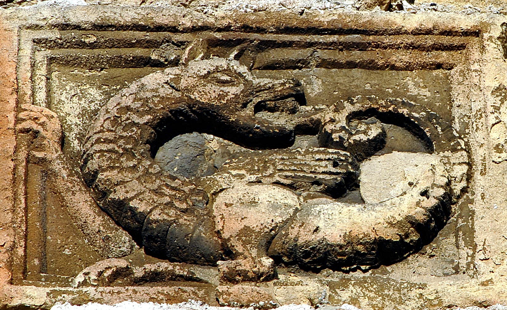 Ouroboros in a wall of the castle of Ptuj (Slovenija)